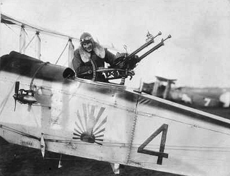 135th Aero Squadron Dayton-Wright DH-4 No 4, Gengault Aerodrome, Toul, France